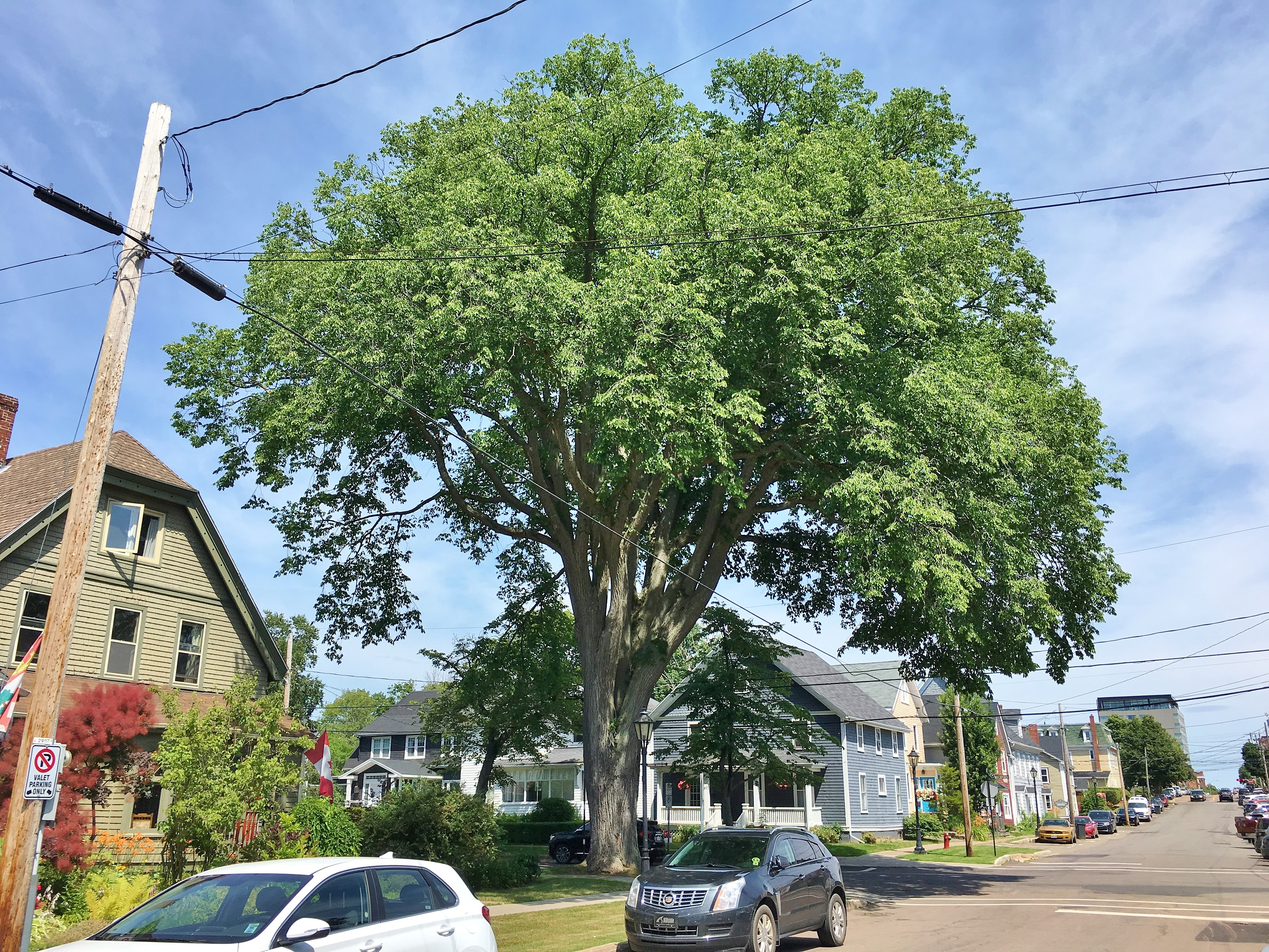 Photograph of an American elm tree located at the corner of Grafton and Rochford Streets in Charlottetown, Prince Edward Island, Canada (August 6, 2019)